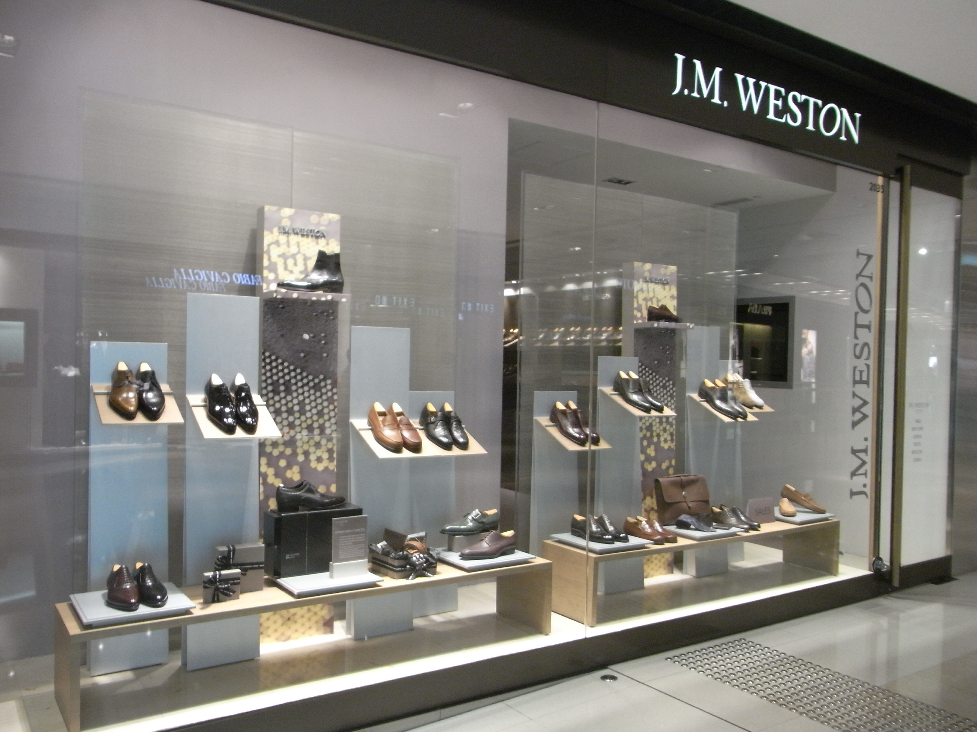 中環